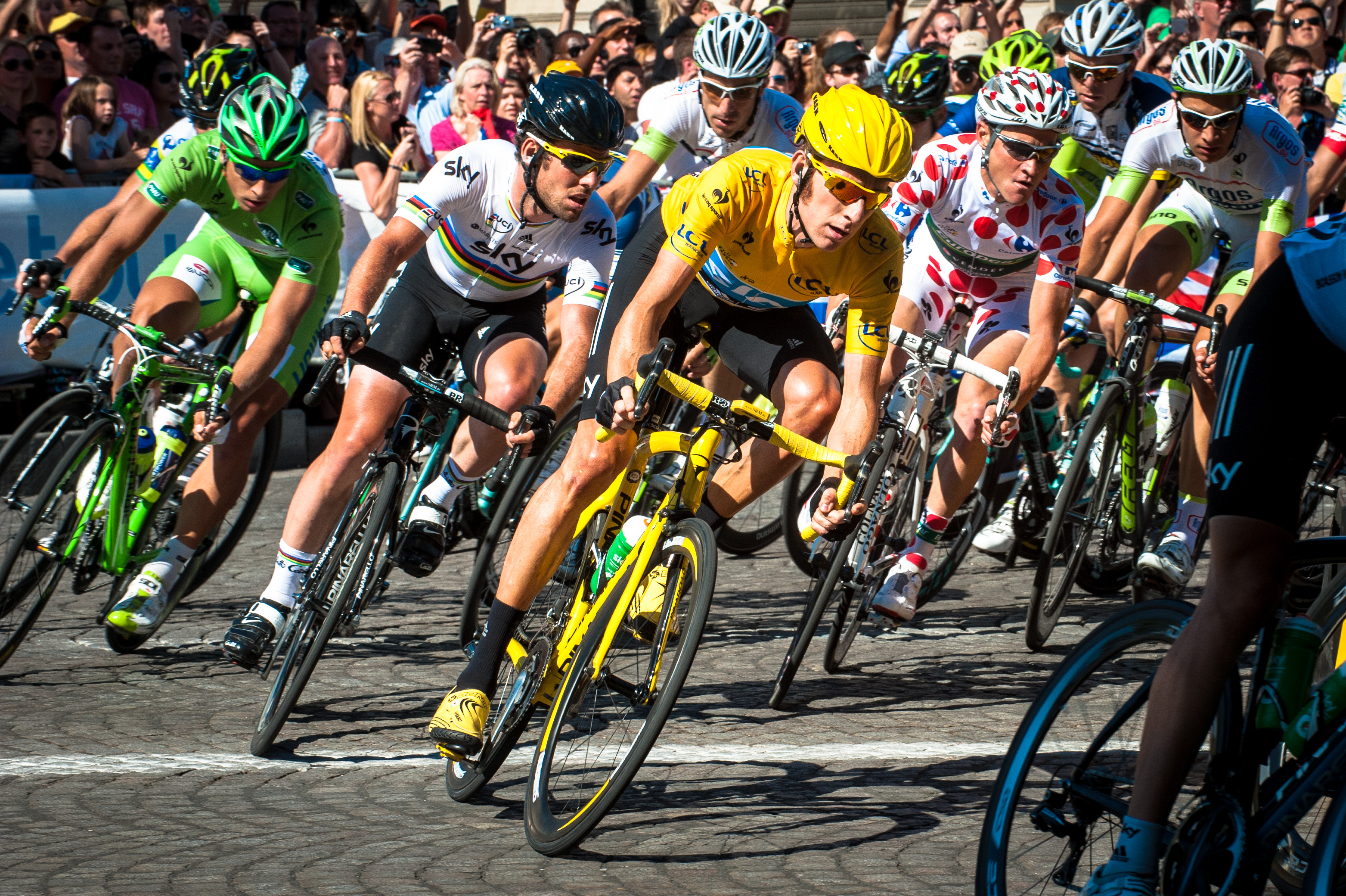 Bradley Wiggins - 2012 Tour de France